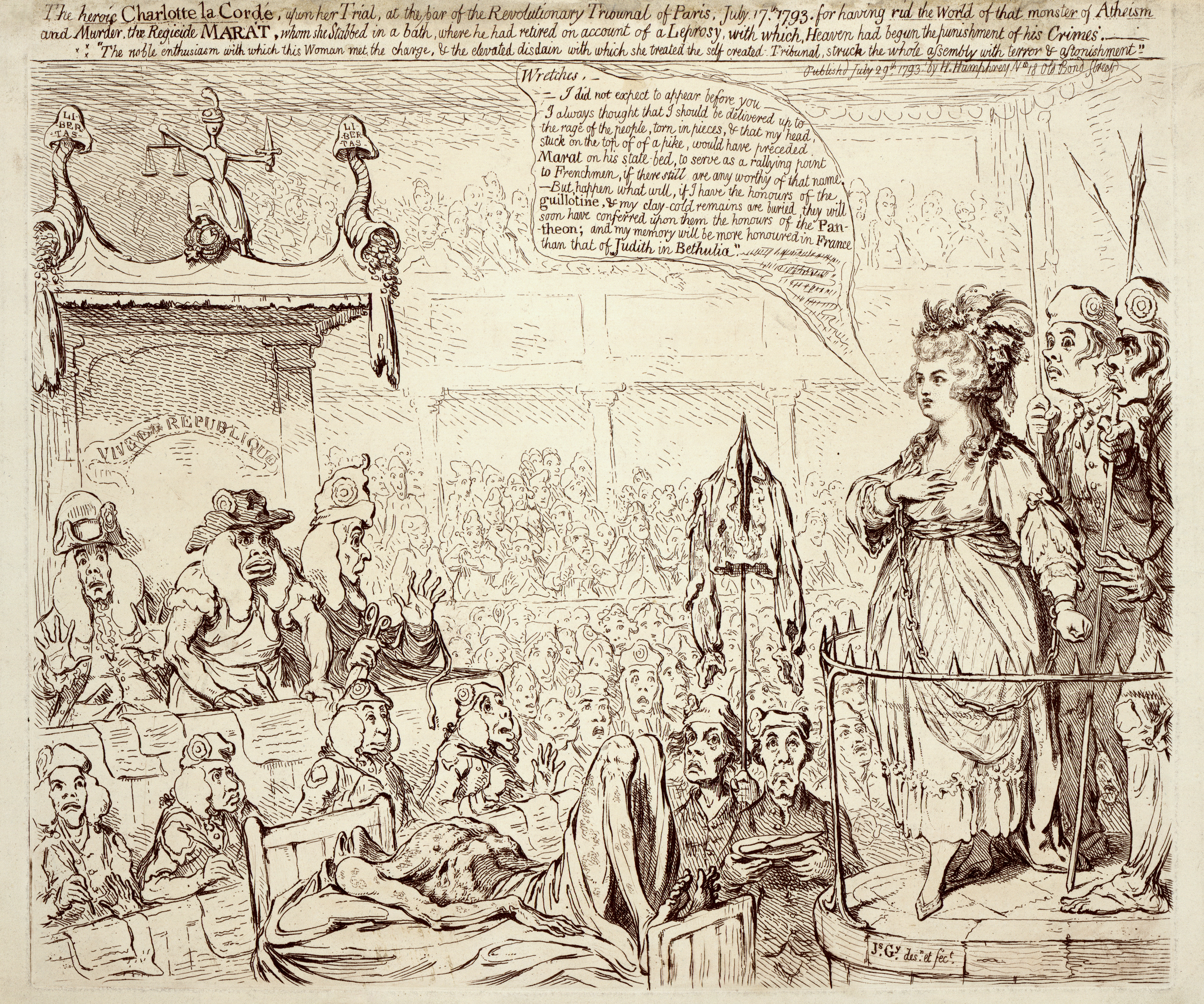 Print shows Charlotte Corday standing before the judges of the Revolutionary Tribunal with the body of Marat which lying between them. She responds to the Tribunal, "Wretches, I did not expect to appear before you - I always thought that I should be delivered up to the rage of the people, torn in pieces, & that my head, stuck on the top of a pike, would have preceded Marat on his state bed, to serve as a rallying point to Frenchmen, if there still are any worthy of that name. But, happen what will, if I have the honours of the guillotine, & my clay-cold remains are buried, they will soon have conferred upon them the honours of the Pantheon; and my memory will be more honoured in France than that of Judith in Bethulia." Title from item. Title continues: For having rid the world of that monster of Atheism and Murder, the Regicide Marat, whom she stabbed in a bath, where he had retired on account of a Leprosy, with which Heaven had begun the punishment of his Crimes. "The noble enthusiasm with which this woman met the charge, & the elevated disdain with which she treated the self-created Tribunal, struck the whole assembly with terror & astonishment."